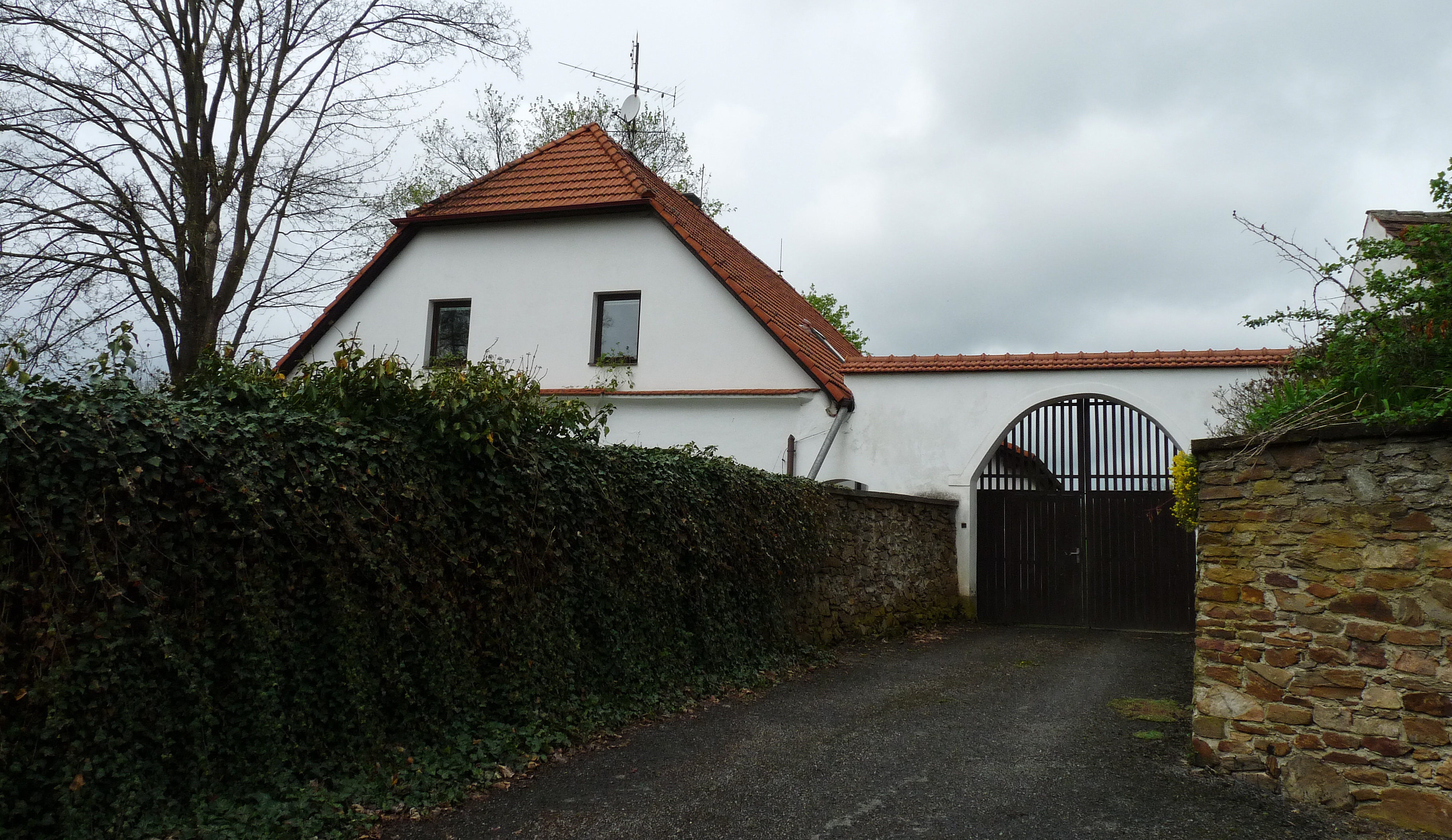 House No 1 in the village of Úraz, Tábor district, Czech Republic